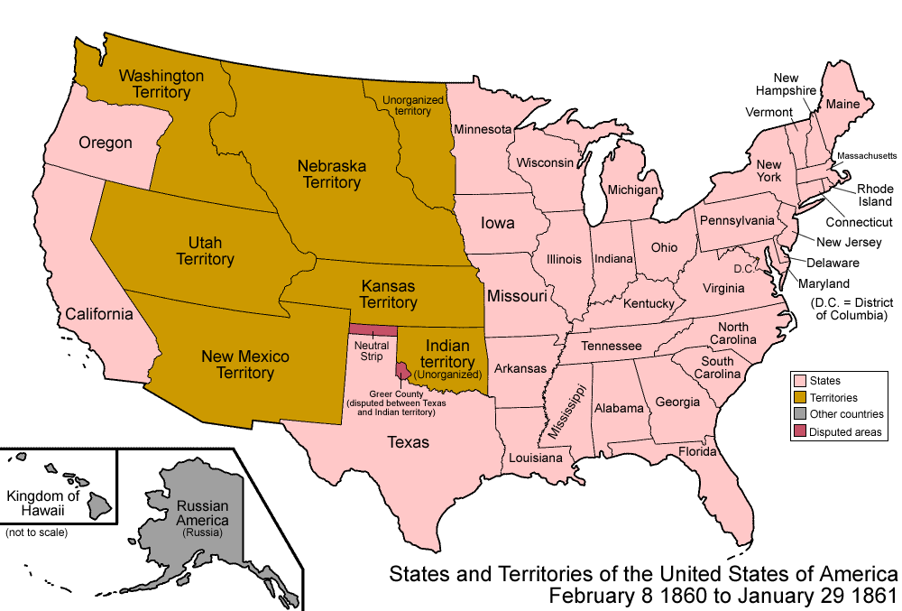 Map of the states and territories of the United States as it was from 1860 to January 1861. On February 8 1860, a dispute arose between Texas and the federal government over ownership of Greer County. On January 29 1861, the eastern portion of Kansas Territory was admitted as the state of Kansas; the western portion seems to have had no official definition for roughly a month, as it was not transferred to Colorado Territory until February 28 1861. During this period, it was de facto under the control of the self-proclaimed Territory of Jefferson.